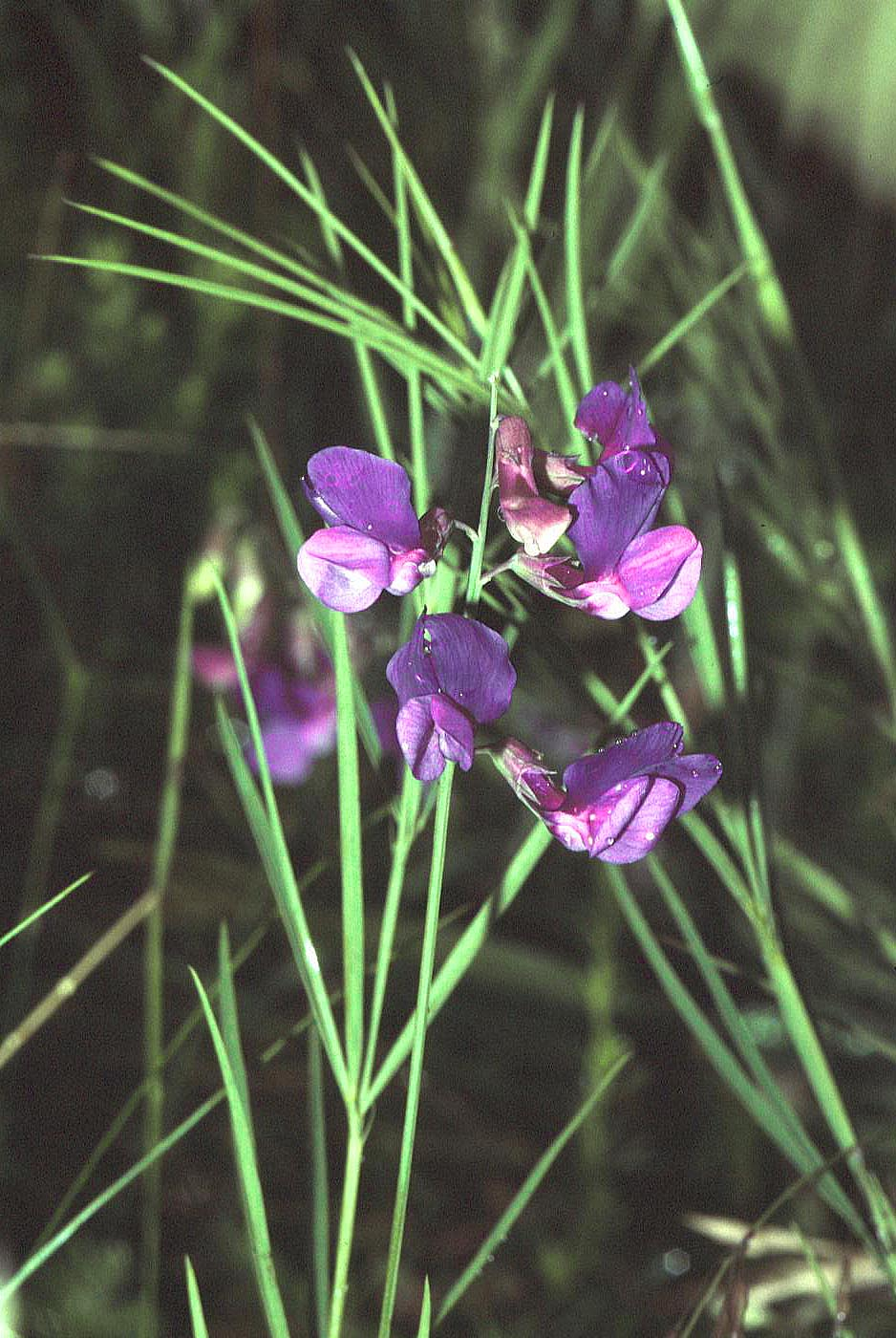 A Lathyrus bauhinii of the Lathyrus genus, photographed near the German city of Tübingen.